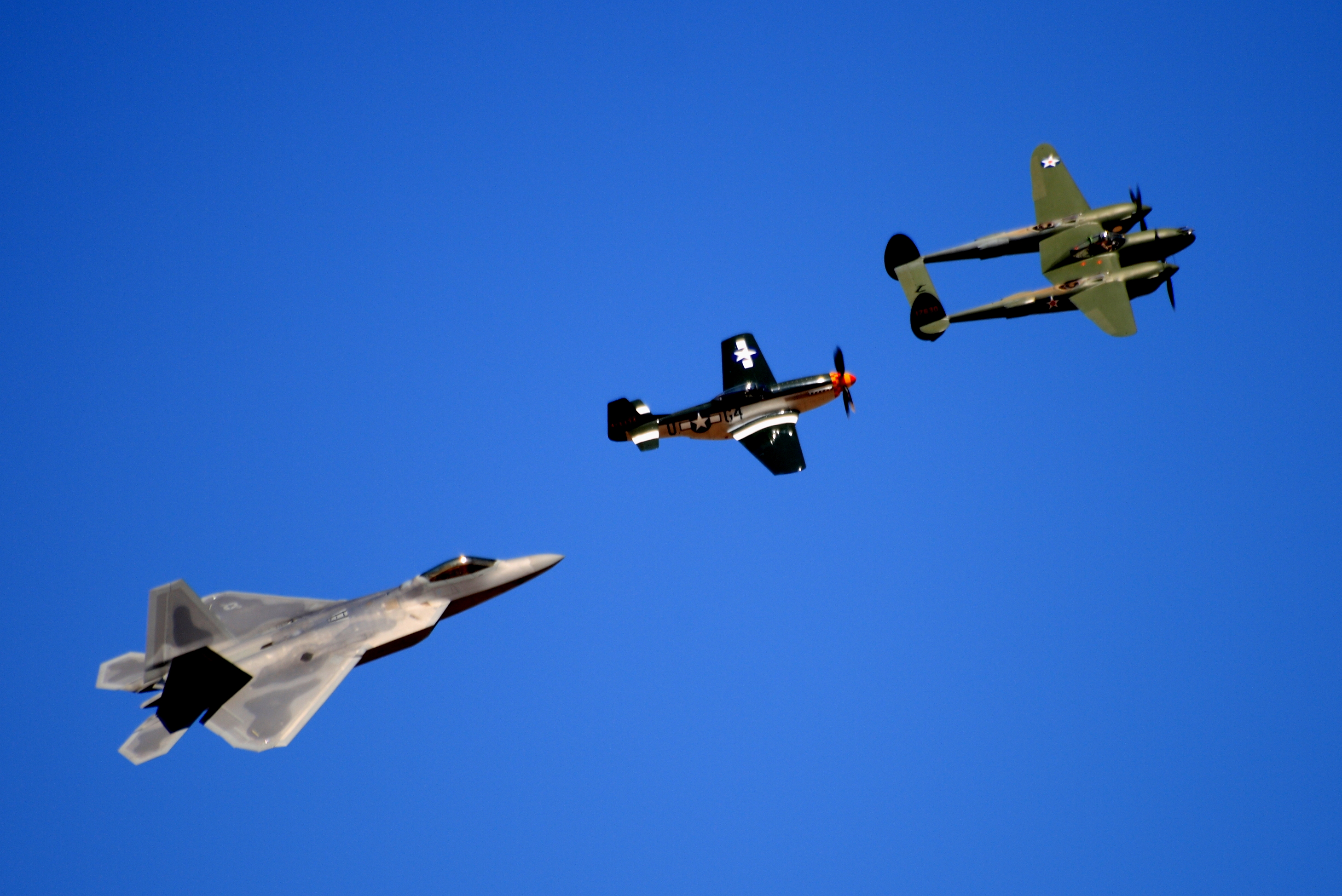 Three fighter aircraft (an F-22 Raptor, a P-51 Mustang, and a P-38 Lightning) flying in formation during the 2008 Reno Air Races.